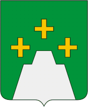 Kesova Gora rayon (Tver oblast), coat of arms